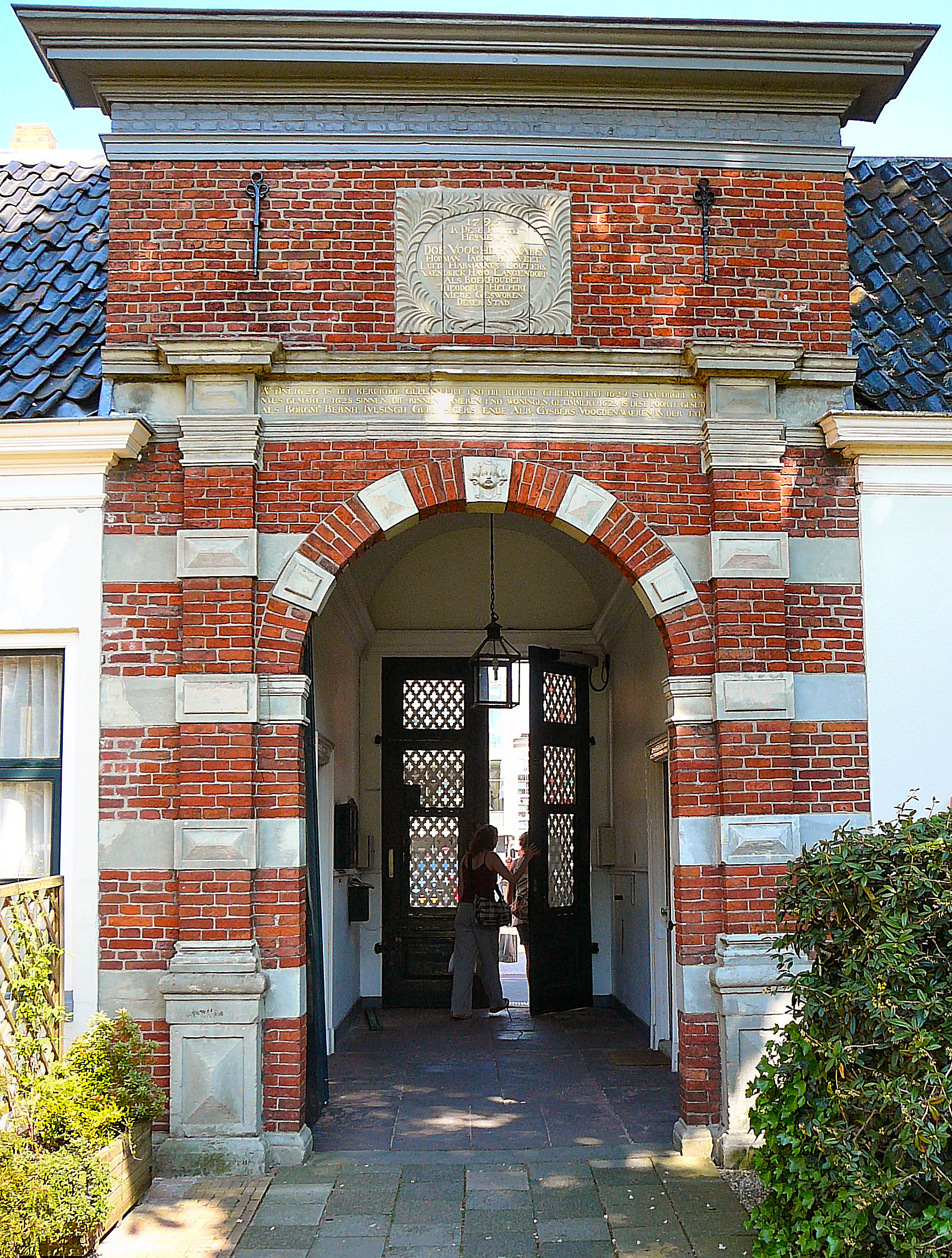 The entryway of the Pelster hospital in Groningen, the Netherlands.